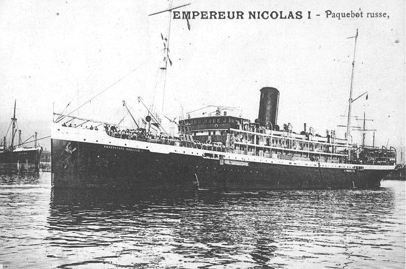 Carte Postale (Open Letter) with photoimage of steam ship Imperator Nikolai I of Russian Steam Navigation and Trading Company (later Aviator)